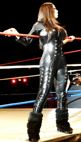 Melina Perez at a live wrestling event in March of 2012